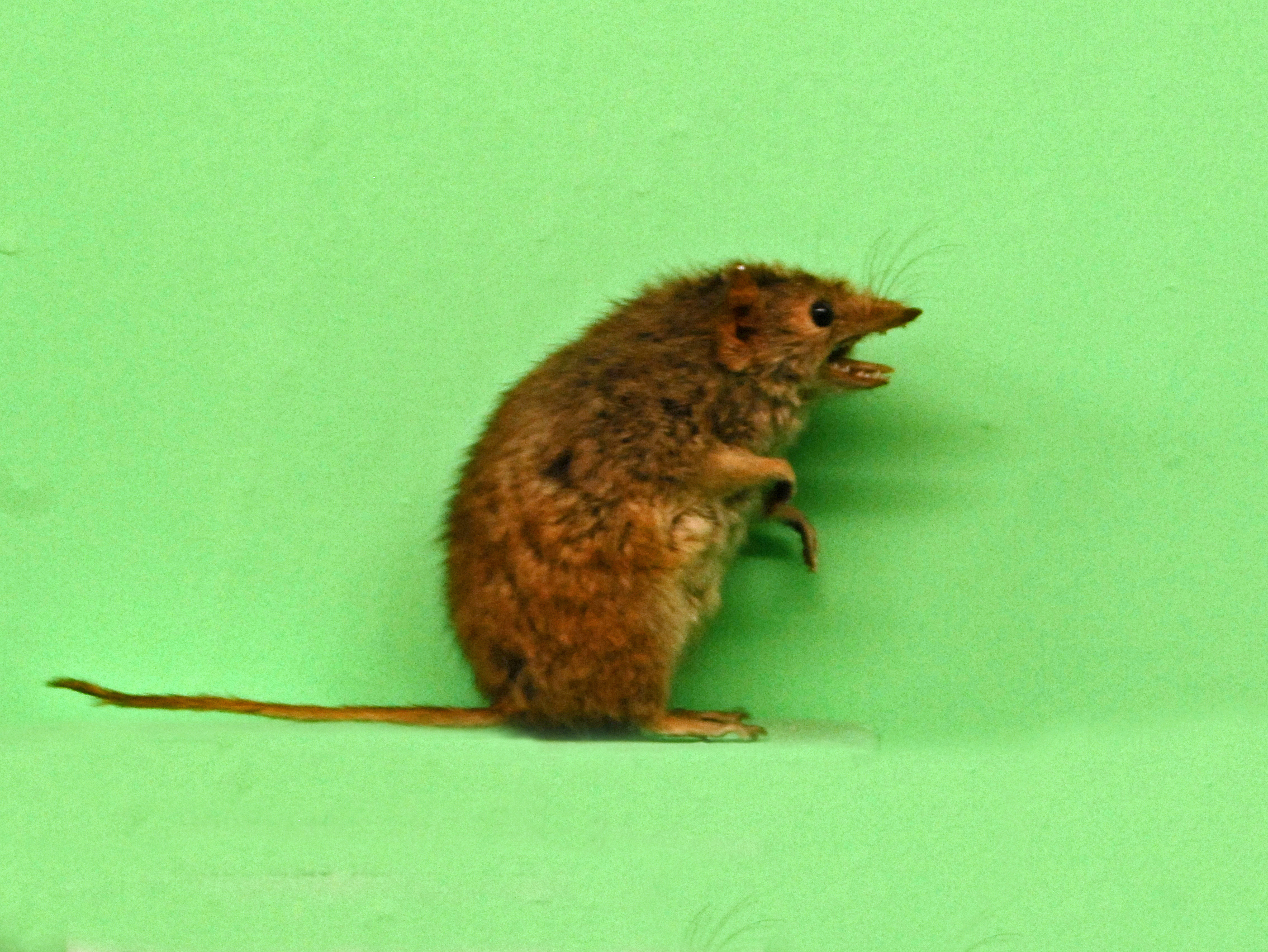 Antechinus minimus from Tasmania. Stuffed specimen